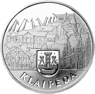 10 litas coin issued to commemorate Klaipeda (From the series "Lithuanian cities") Alloy of copper and nickel (Cu 75%, Ni 25%) Quality proof Diameter 28.70 mm Weight 13.15 g The words on the edge of the coin: KLAIPEDAI – 750 The designer of the coin is Rimantas Eidejus Mintage 5,000 pcs Issued 2002 The coin was minted at the state enterprise Lithuanian Mint.